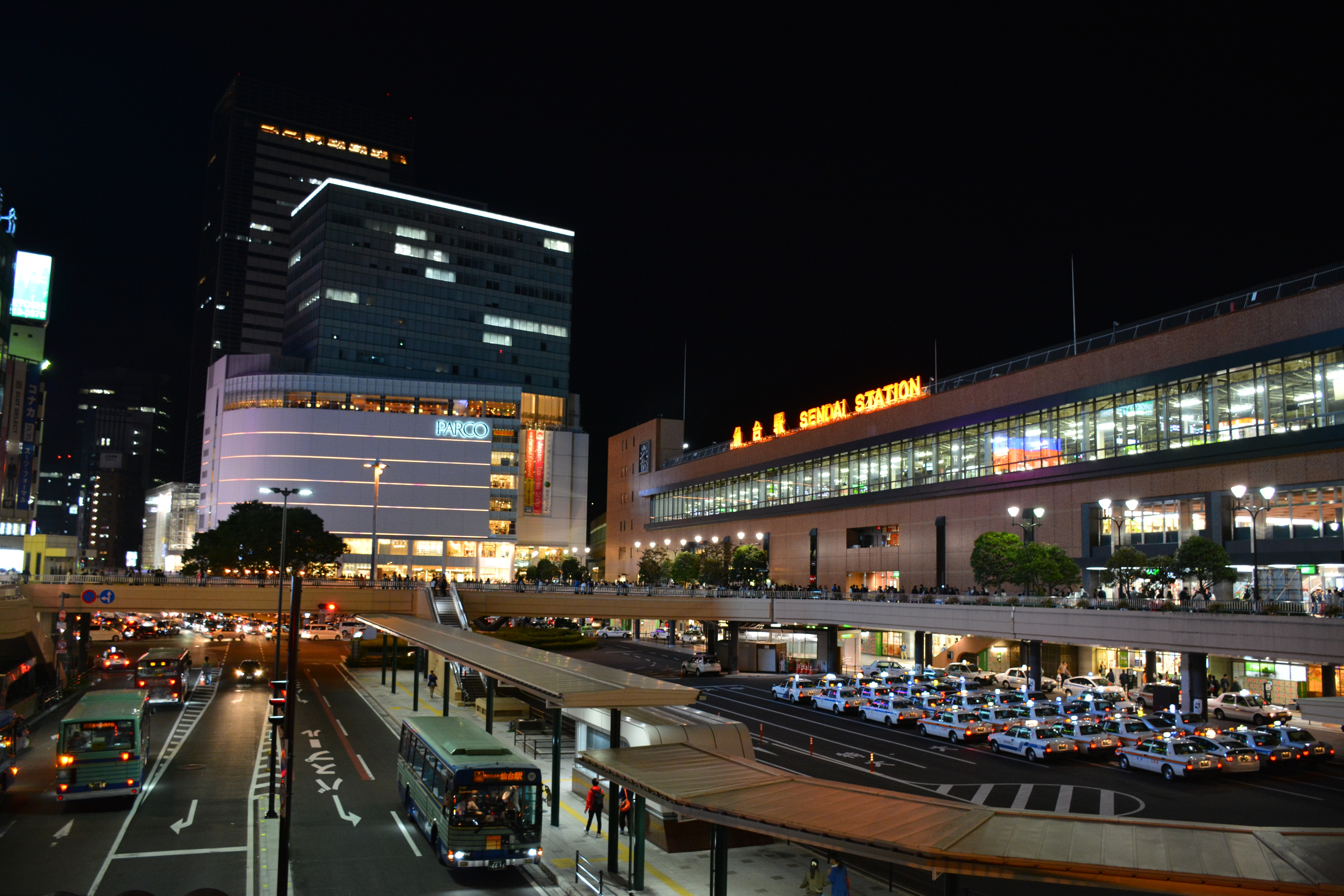 Sendai Station, October 2016